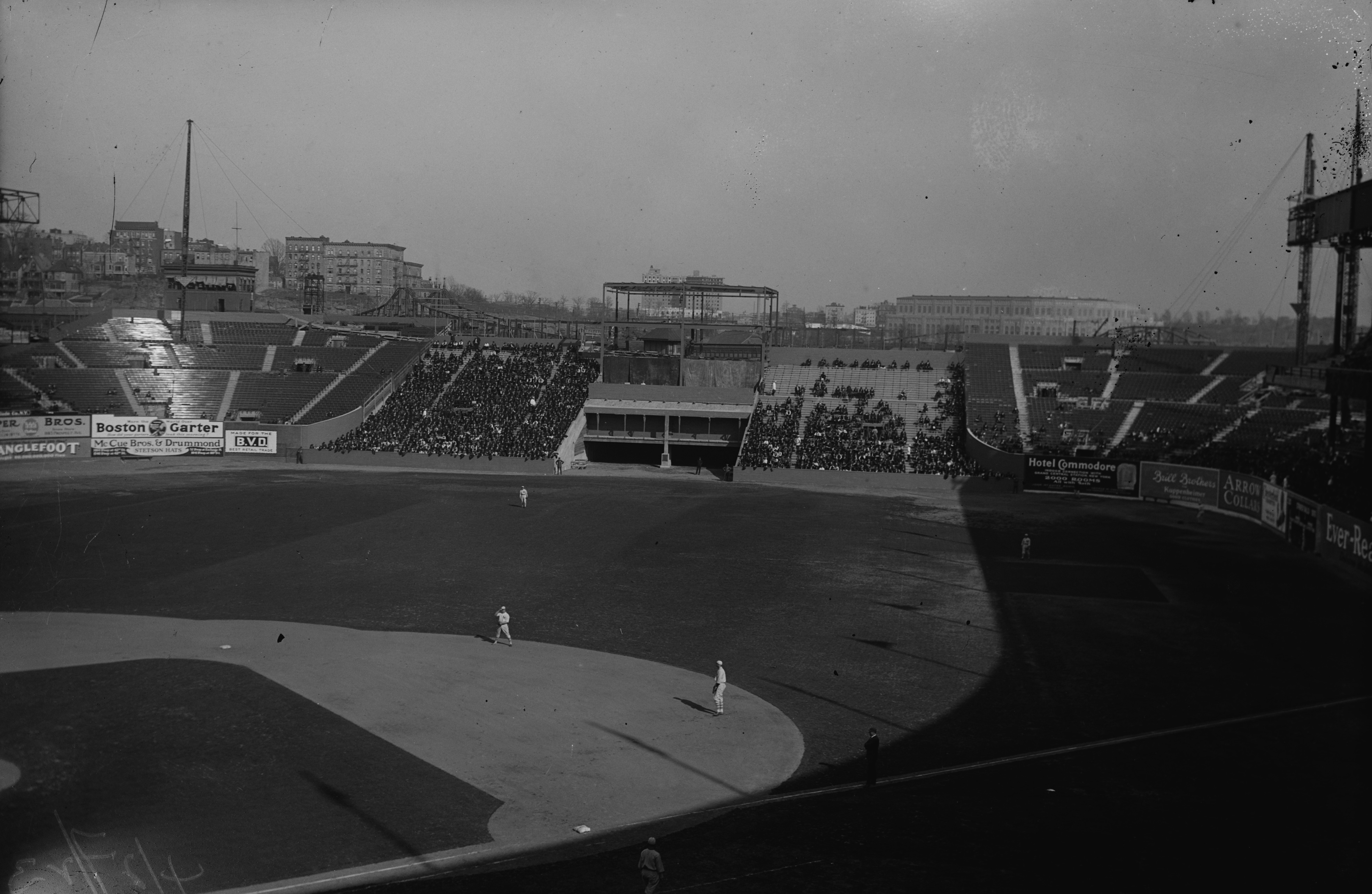 The Polo Grounds at opening day, 1923. Newly built Yankee Stadium is visible in background.